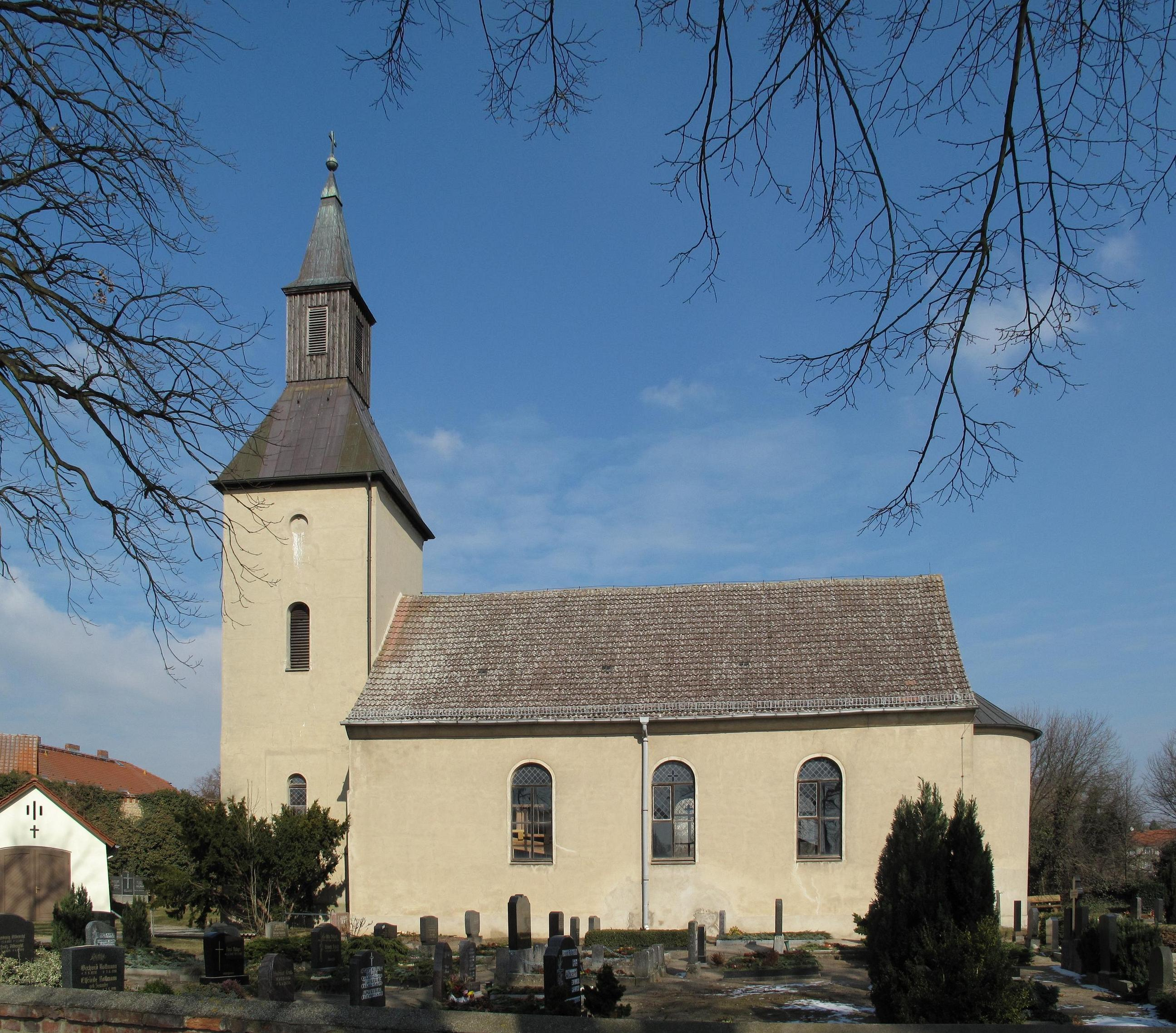 Listed village church in Fresdorf, built in 1755. Fresdorf is a part of Michendorf in the district Potsdam-Mittelmark, state Brandenburg, Germany.